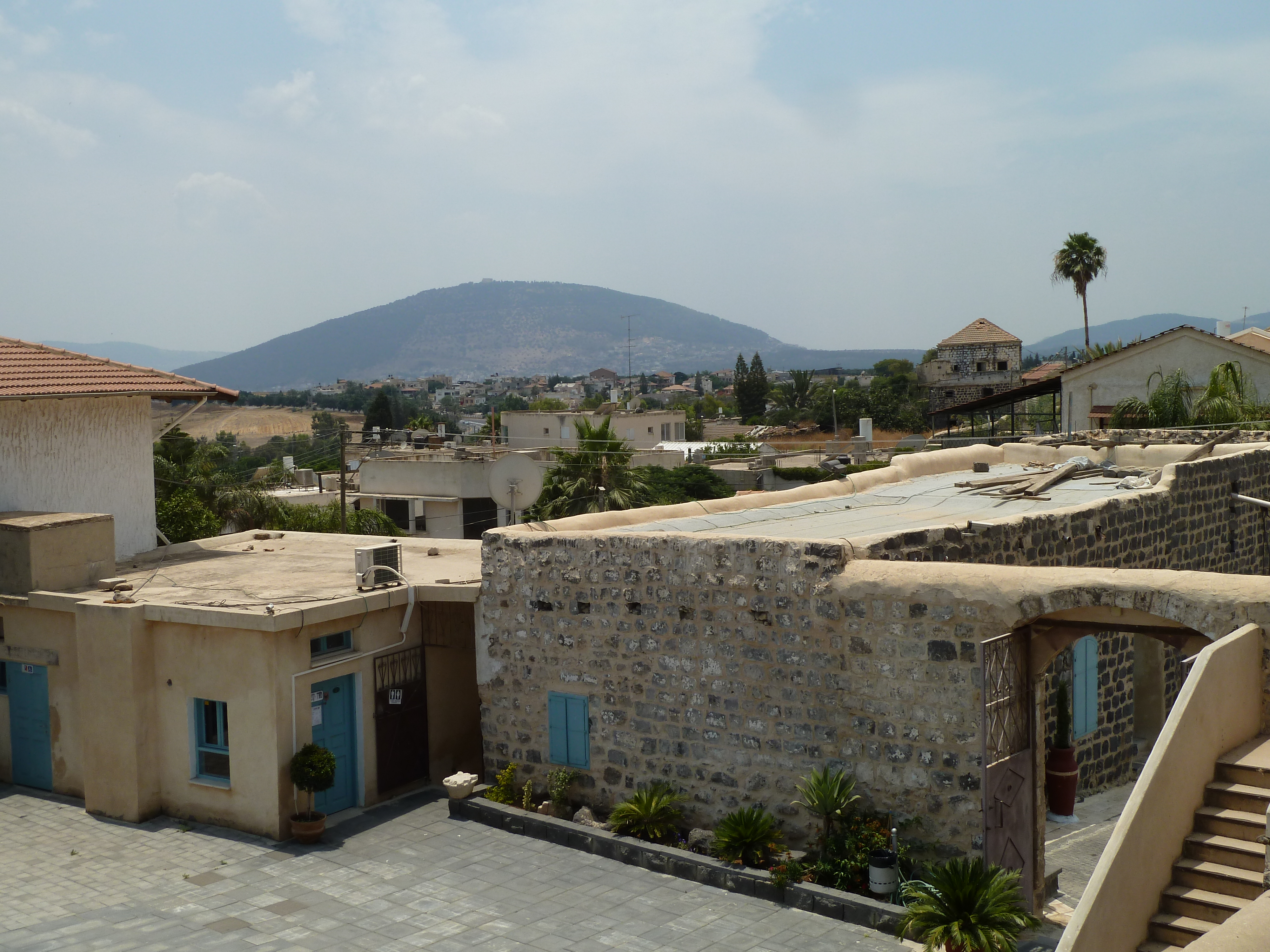 The Circassian village of Kfar Kama, the Lower Galilee, Israel This image was taken as part of the Elef Millim project trip to the Circassian town of Kfar Kama in the Lower Galilee, which was held on Friday, 22nd June 2012. To view all images uploaded as part of the Elef Millim Project